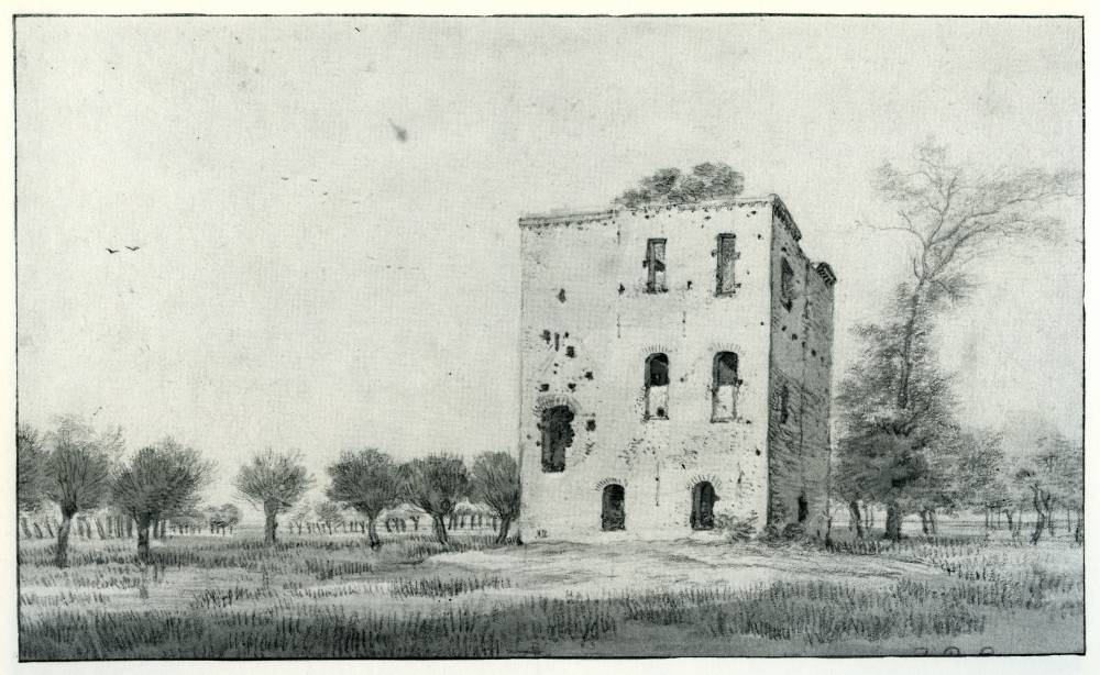 Castle Heemstede, Jutphaas